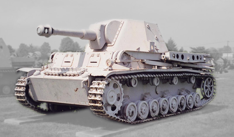 Heuschrecke on display at the US Army Ordnance Museum in Aberdeen. The picture taken year 2000.